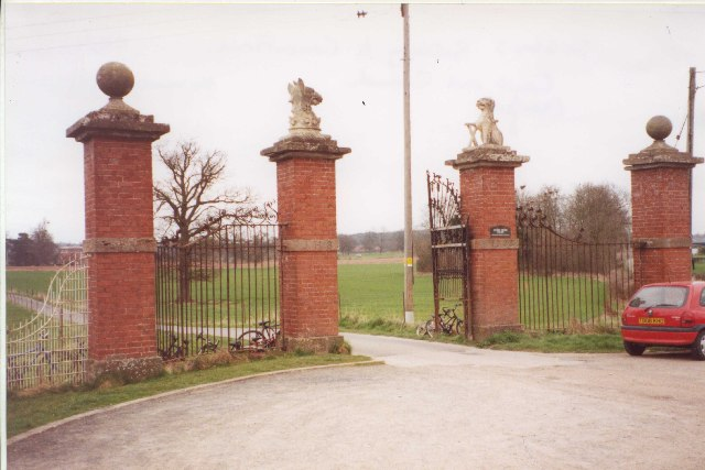 Gateway to Canon Frome Court. This grand entrance leads to the church as well as the Georgian mansion, which has served as a County Secondary School but is now flats. Note that the car park for the church is a narrow right turn just before the gates leading into the curtilage of the house, beyond which tourists are not welcome!